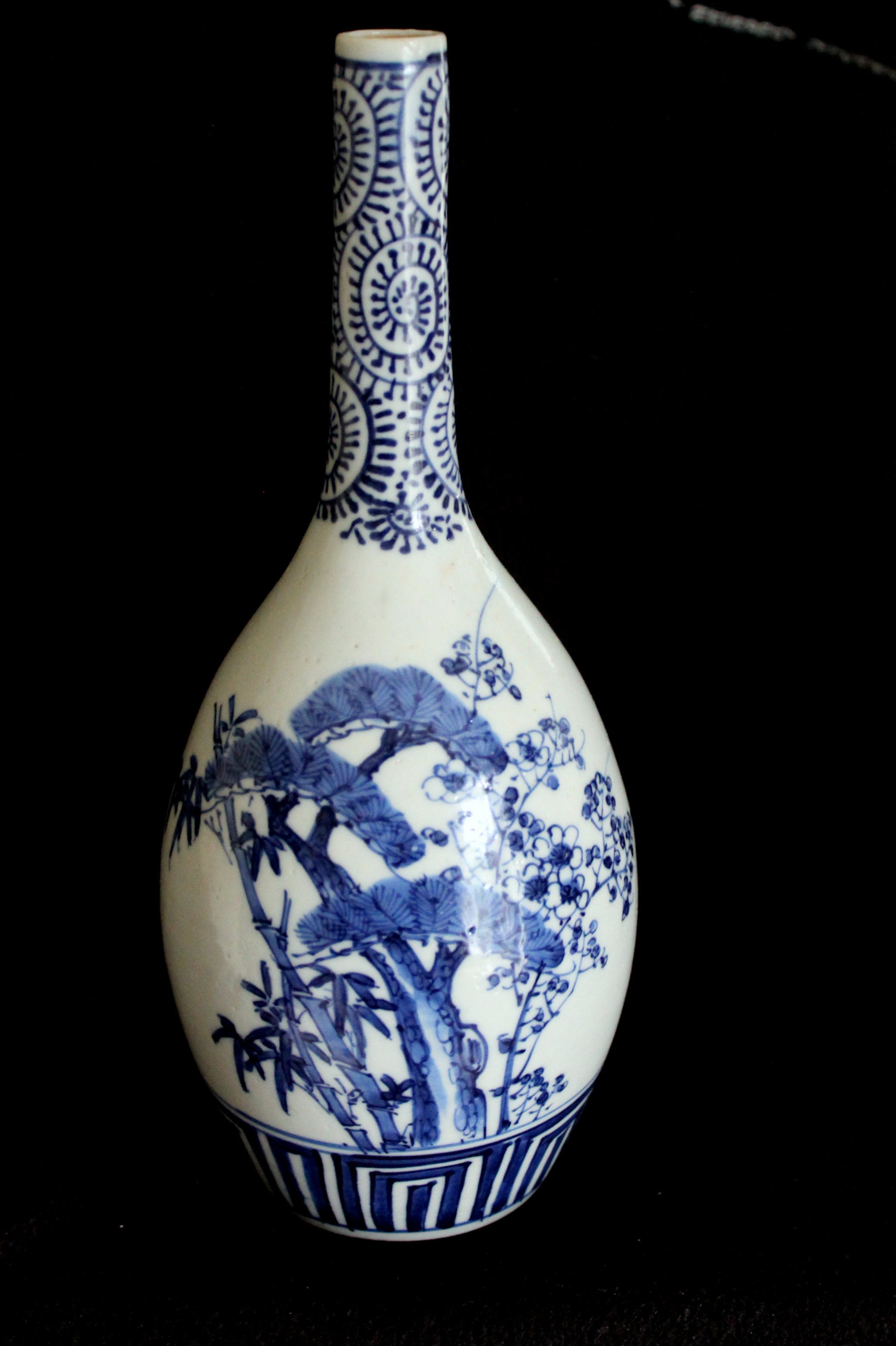 Japanese porcelain sake bottle vase with underglaze blue, octopus and three friends design, Edo period (1615-1868), Japan